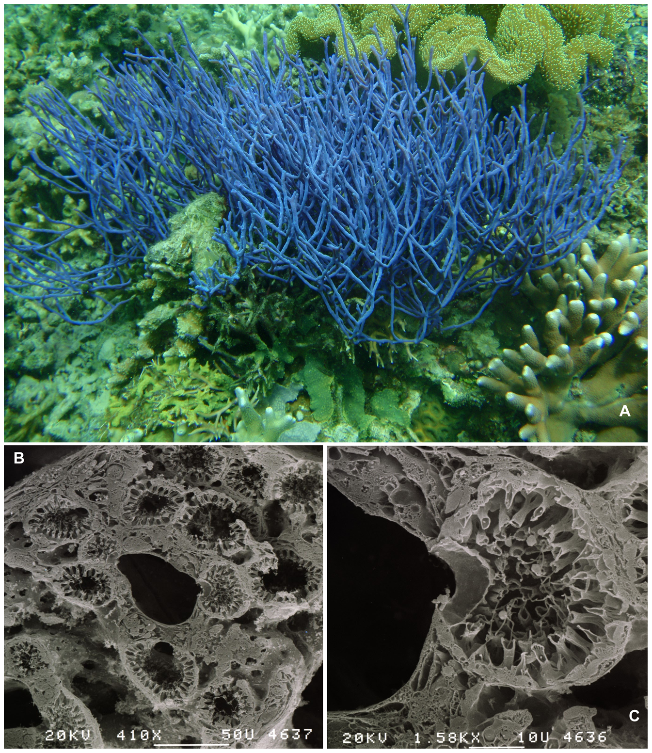 Porifera morphology and internal structure. A. Callyspongia (Callyspongia) samarensis (Demospongiae: Haplosclerida), Ternate, Maluku province, Indonesia (photo N.J. de Voogd); B. SEM image of cross section of mesohyl of the demosponge Scopalina ruetzleri obtained by freeze-fracturing technique (courtesy L. de Vos); C. Detail of choanocyte chamber of Scopalina ruetzleri (courtesy L. de Vos).